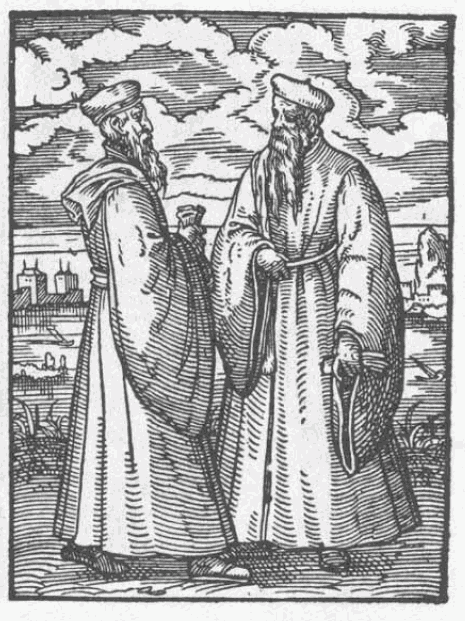 Noblemen conversing.